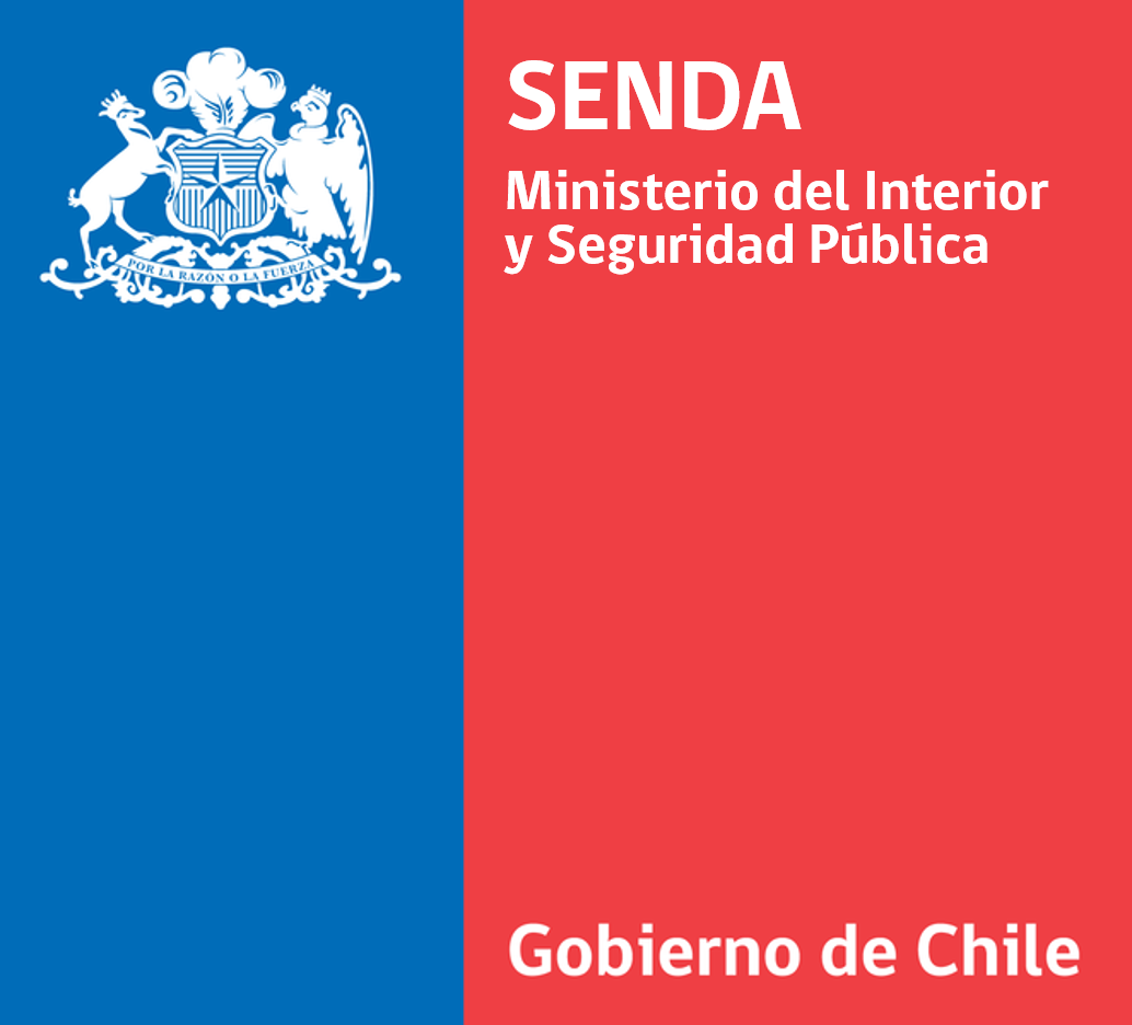 Institutional logo of the National Service for the Prevention and Rehabilitation of Drug and Alcohol.